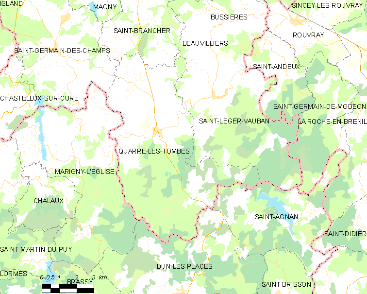 Map of French municipality Quarré-les-Tombes